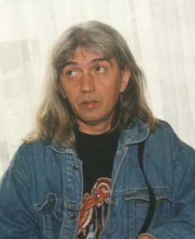 Folk/rock singer and songwriter Valeriu Sterian in 1998, at the release of Bestiar, album made by Ilie Stoian.